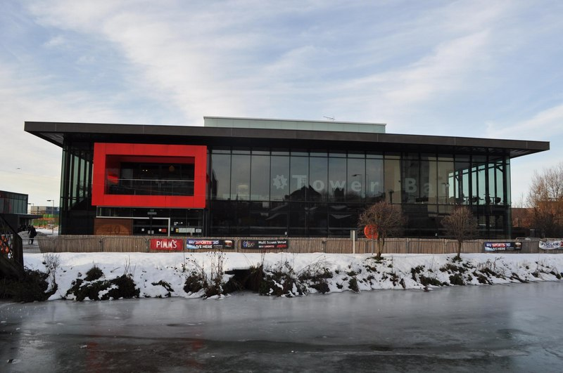 The Engine Shed, near to Lincoln, Lincolnshire, Great Britain. This is the 'engine shed'. The old GNR engine shed that was converted into the students union. It is encased in a steel and glass shell. Link